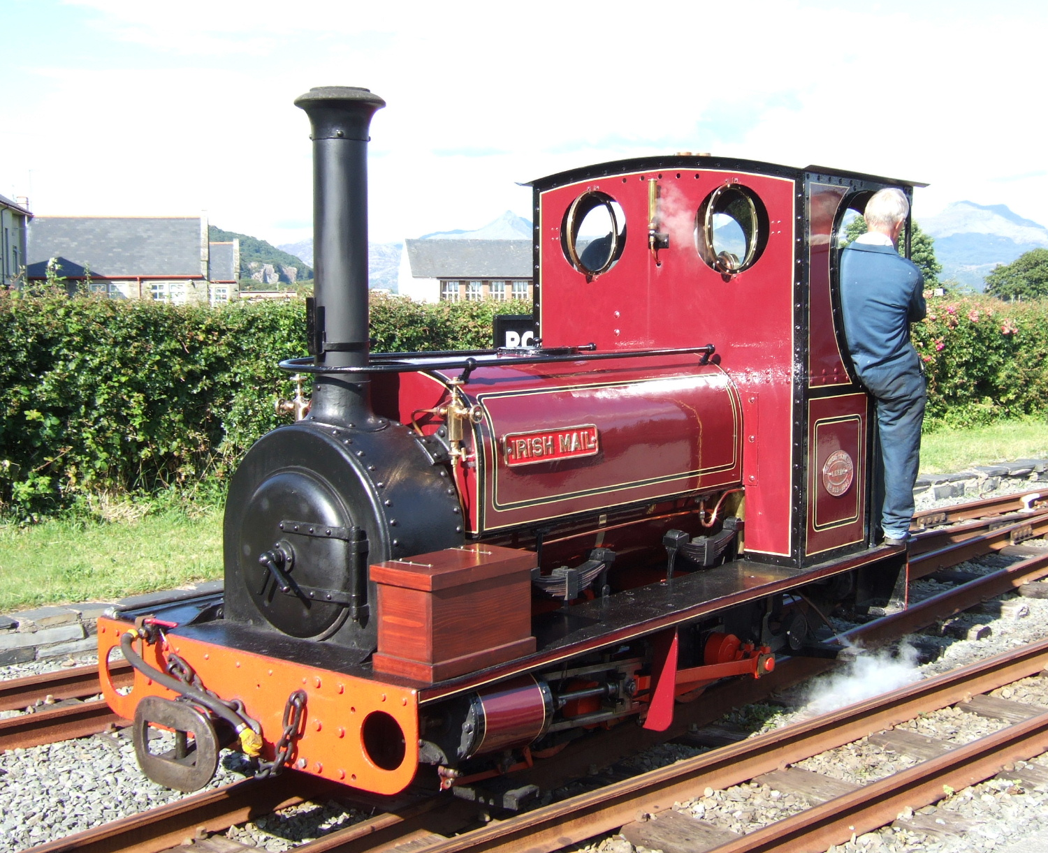 Welsh Highland Railway Ltd., in Porthmadog. Hunslet 'Irish Mail' 0-4-0ST HE823 of 1903, normaly resident on the West Lancashire Light Railway. 10th August 2005 Photographer - A.M.Hurrell Camera - Fuji FinePix F10 Modified - Trimmed and file size reduced using Finepix Software